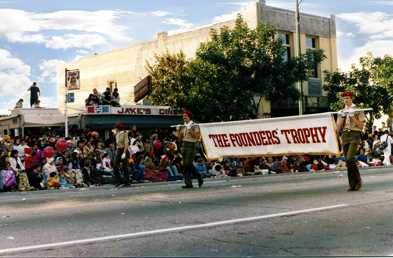 Eagle Scouts from the honor troop of the 1983 Tournament of Roses Parade